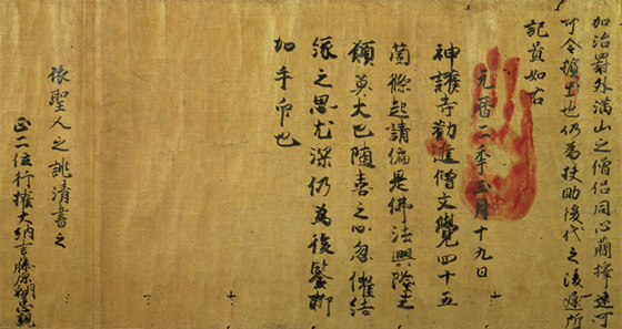 Priest Mongaku's forty-five article rules and regulations (文覚四十五箇条起請文〈藤原忠親筆／, mongaku yonjūgokajō kishōmon). Document requesting the restoration of Jingo-ji temple from Emperor Go-Shirakawa. Located at Jingo-ji, Kyoto, Japan. The scroll has been designated as National Treasure of Japan in the category ancient documents.